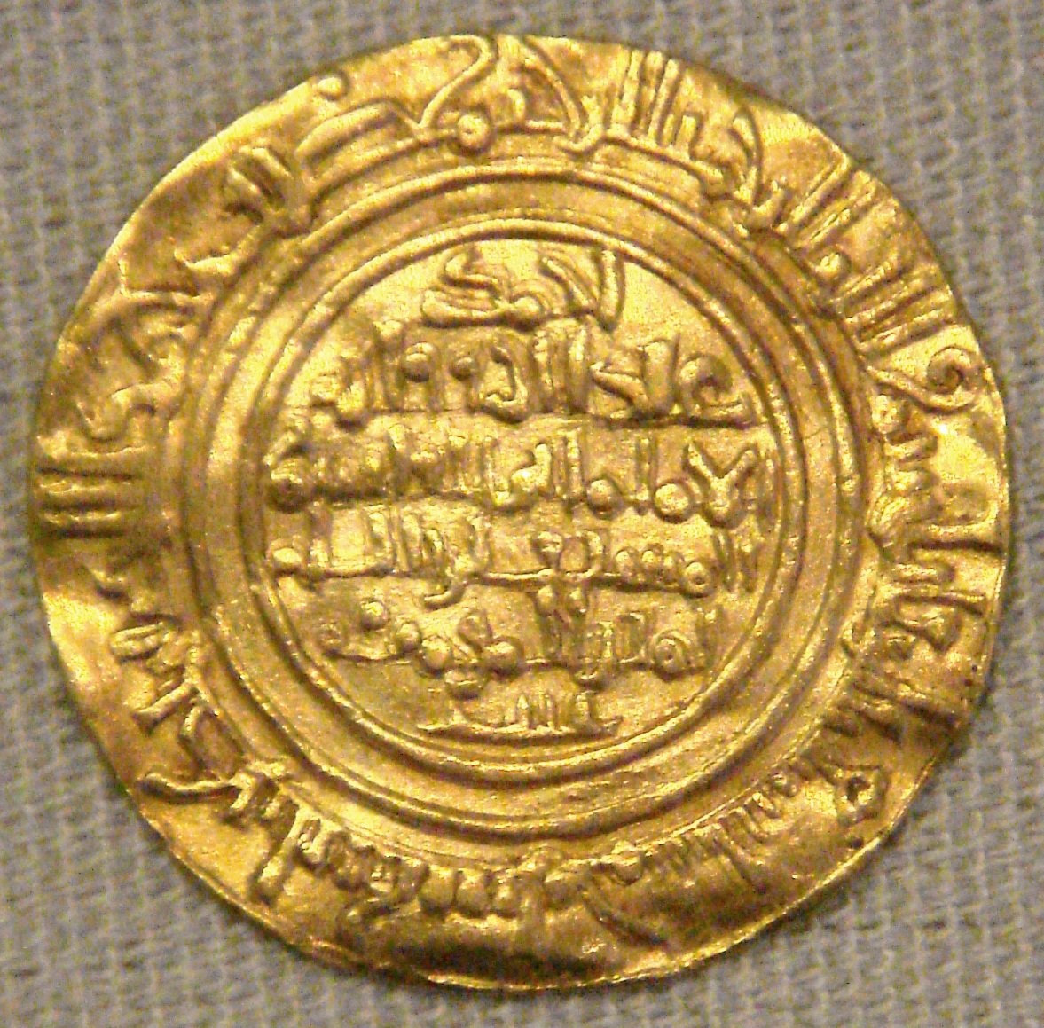 Calif_al_Mustali_Tripoli_1101_CE